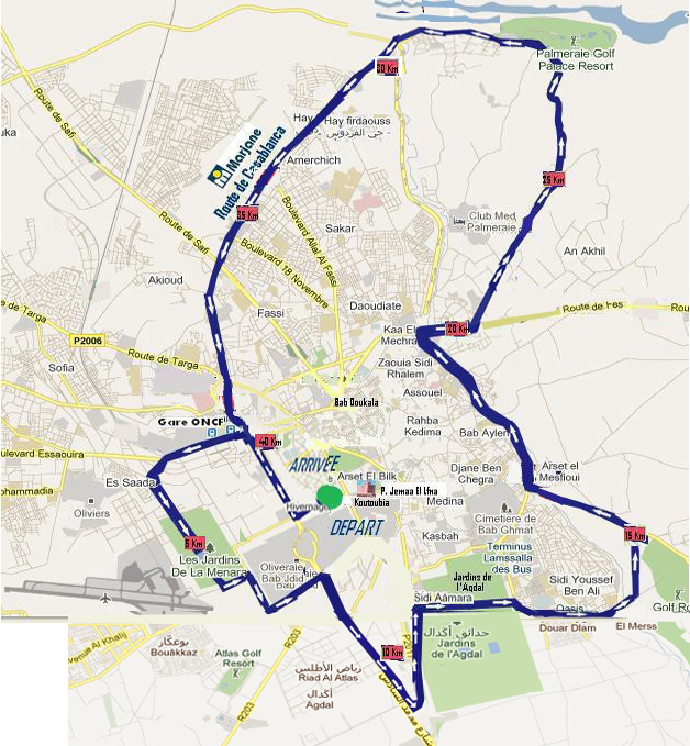 marrathon marrakech route